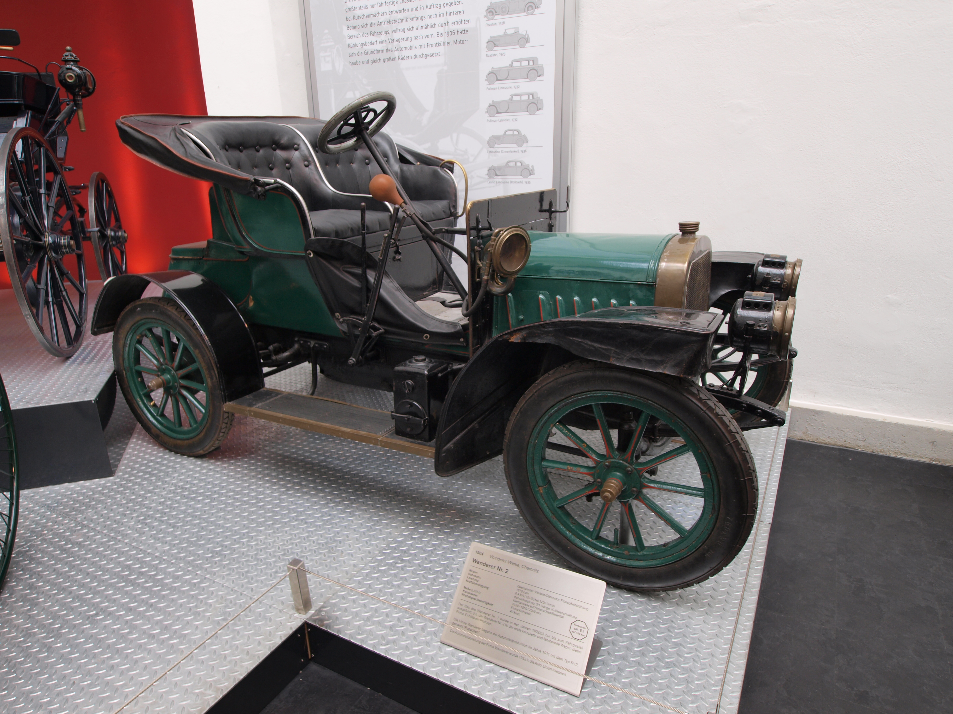 Photo taken without a tripod (was not permitted!) 1904 Wanderer Nr2